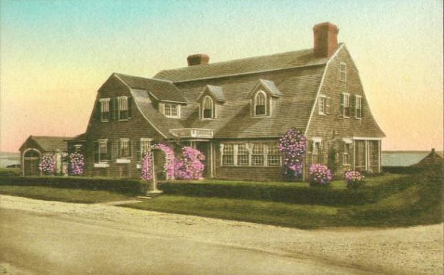 "Cross Trees," residence of Joseph Crosby Lincoln, author; Chatham, MA; from a c. 1920 postcard. Built in 1916, the house was designed by Boston architect, William H. Cox.